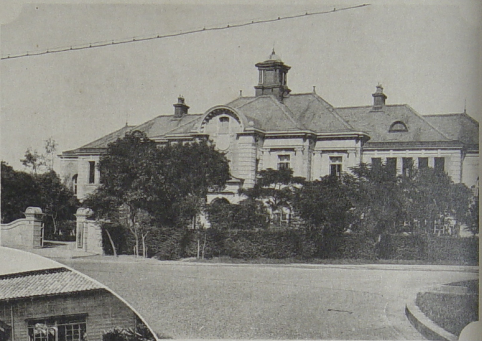 Taihoku Shihan Gakkō Fuzoku shōgakkō